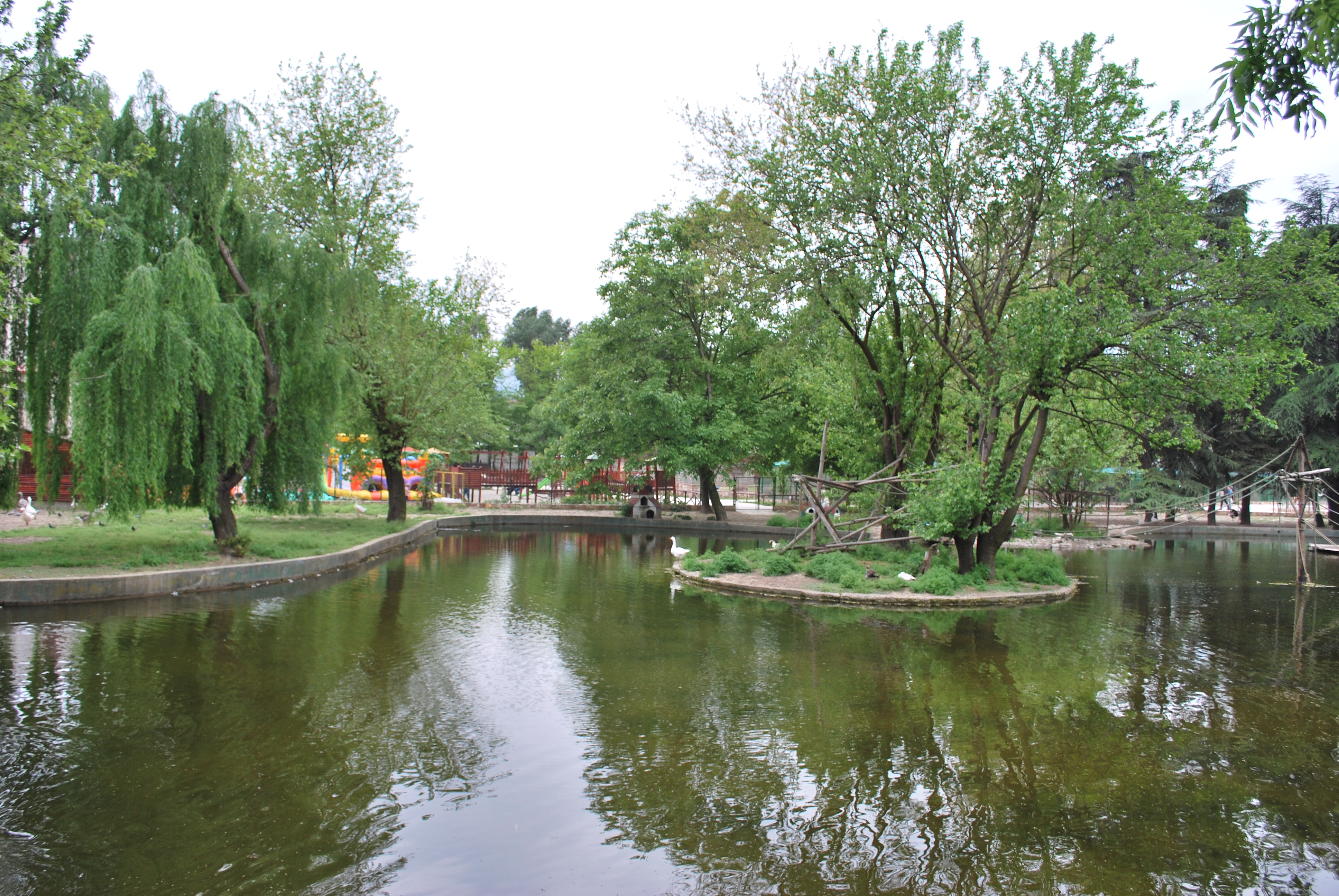 Skopje Zoo, Маcedonia